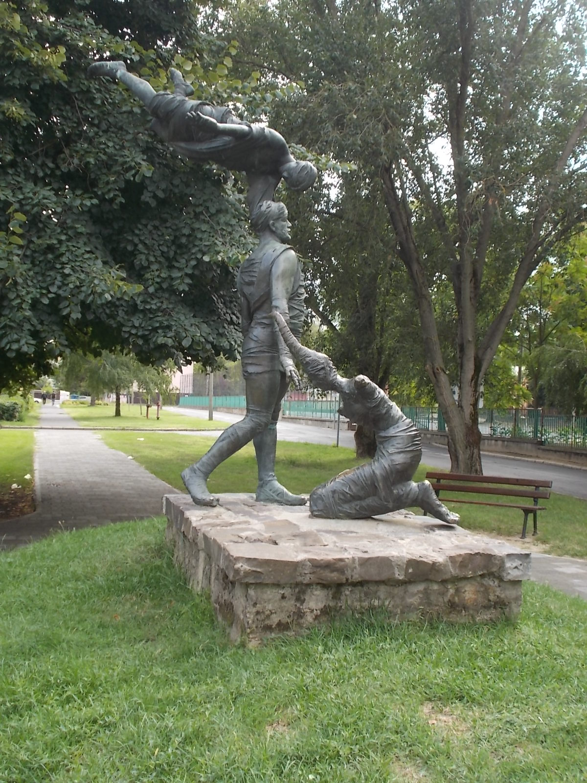 Abraham and Isaac by Tamás Szabó - Mártírok Street, Kisvárda, Szabolcs-Szatmár-Bereg County, Hungary.